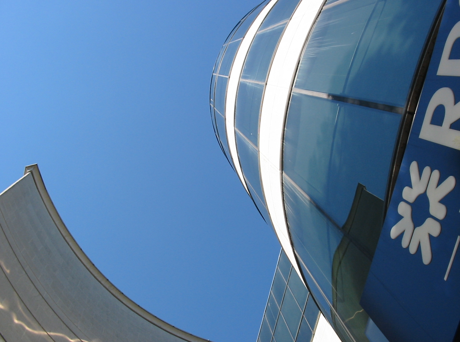 Royal Bank of Scotland InternationalJersey